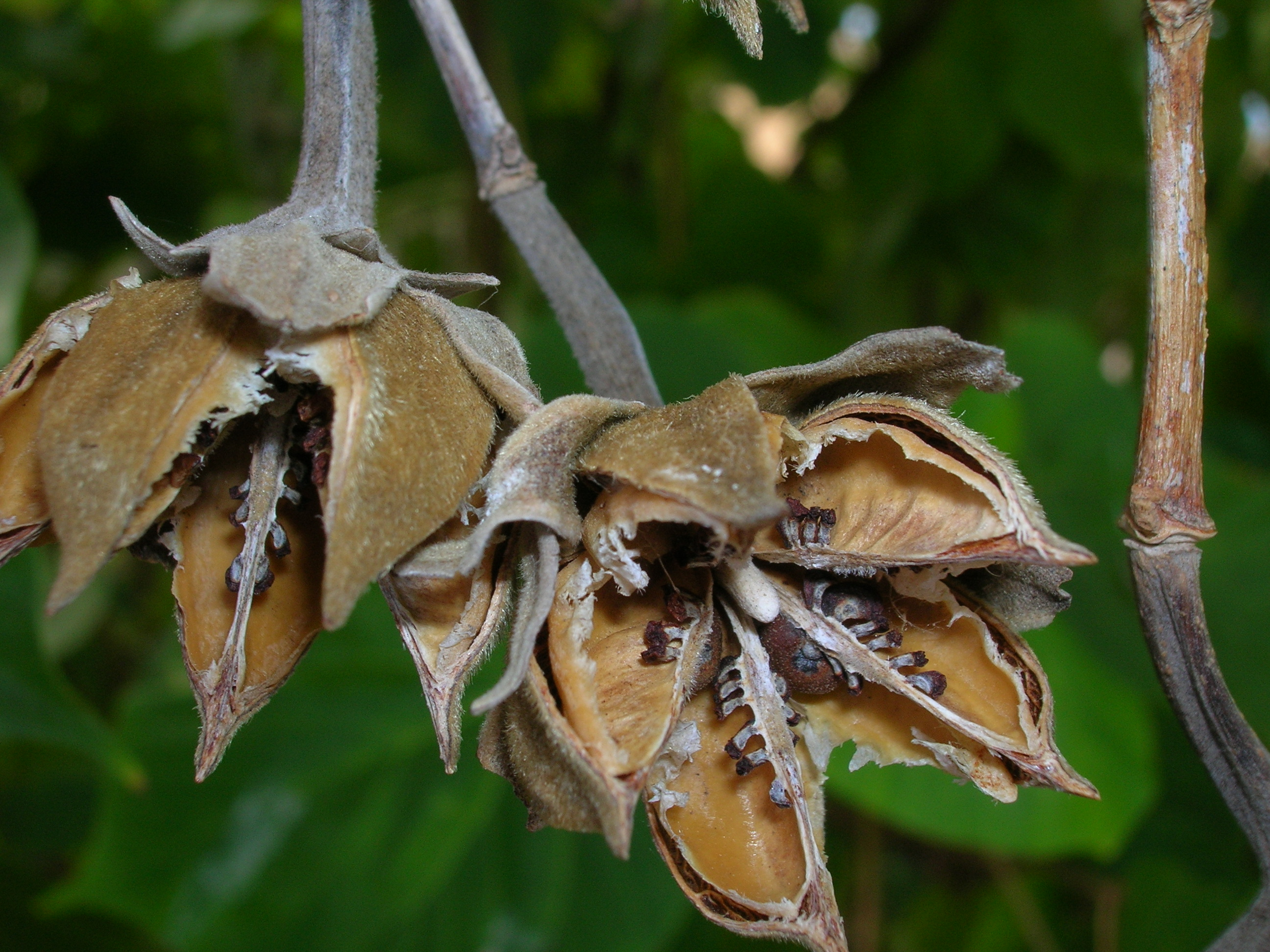 Hibiscus tiliaceus (fruit). Location: Kahoolawe, Honokanaia